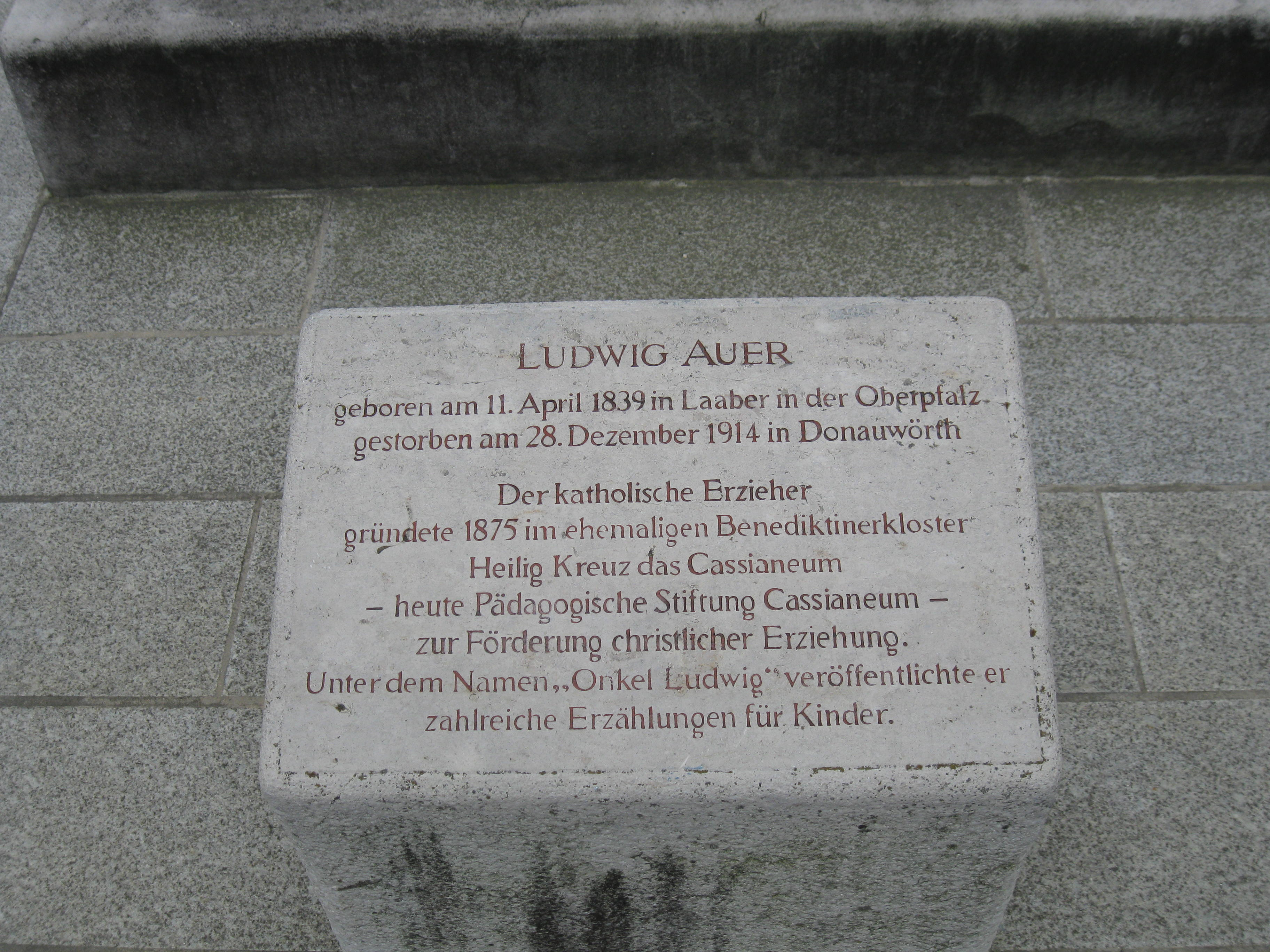 Plaque for the memory of Ludwig Auer (Onkel Ludwig), located at the memorial for him